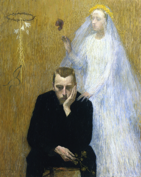 Mystic Scene